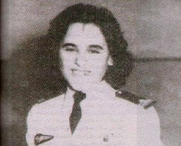 Lotfia El Nadi in school